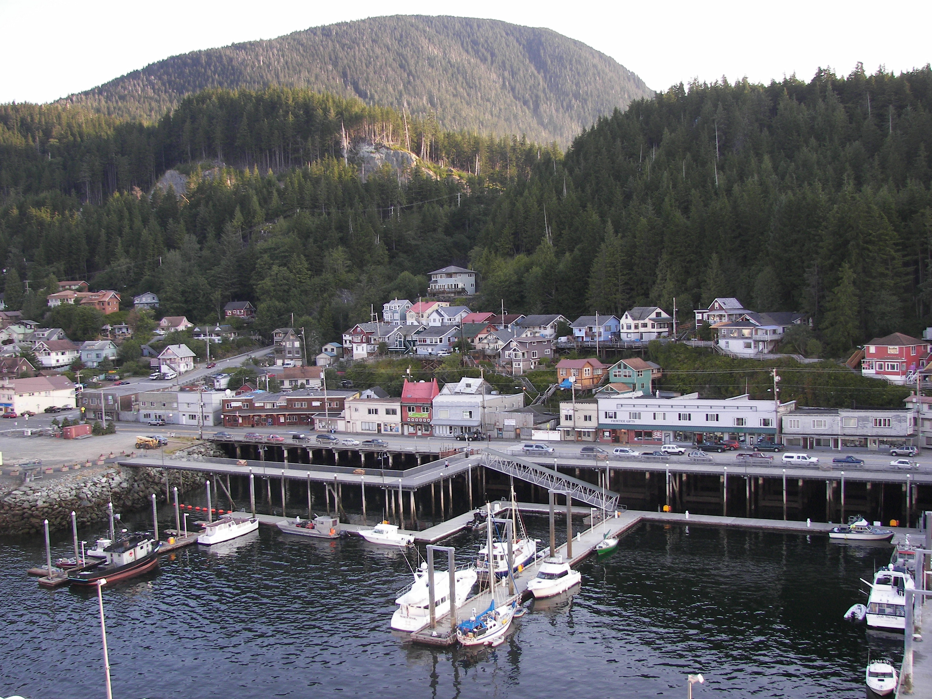 Ketchikan, Alaska from the east channel of the Tongass Narrows.